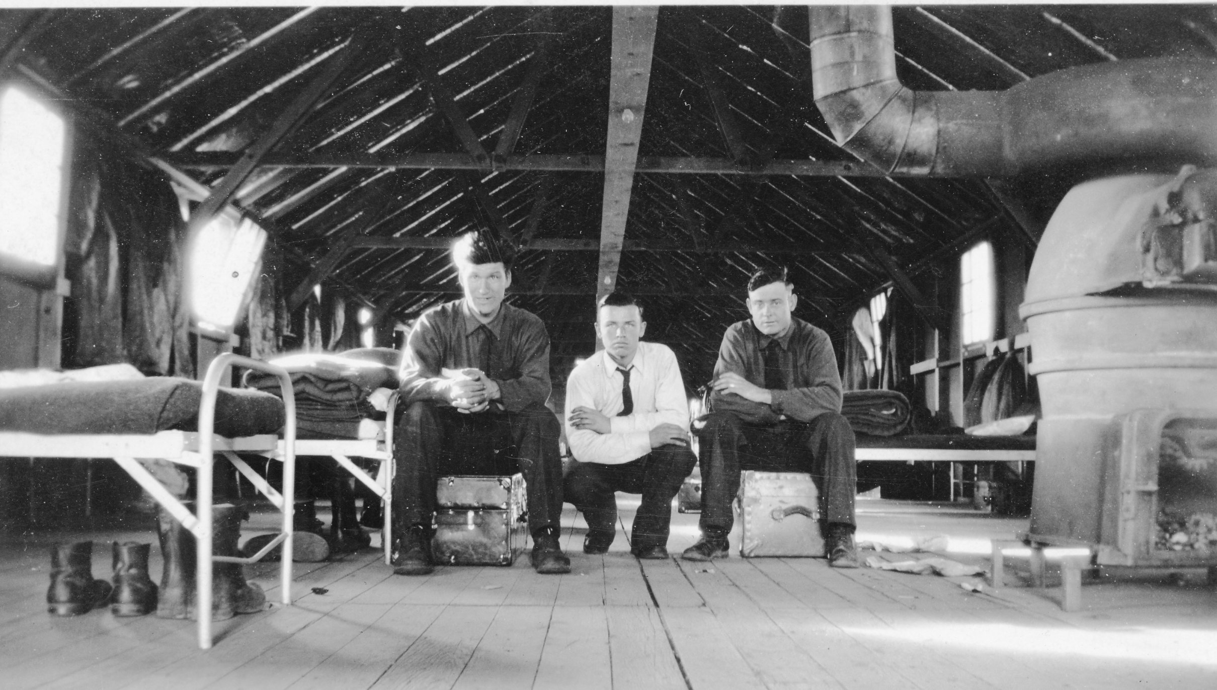 Inside of a CCC barrack at Milford, Utah.